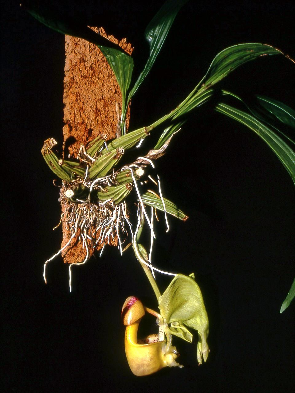 Coryanthes verrucolineata - plant